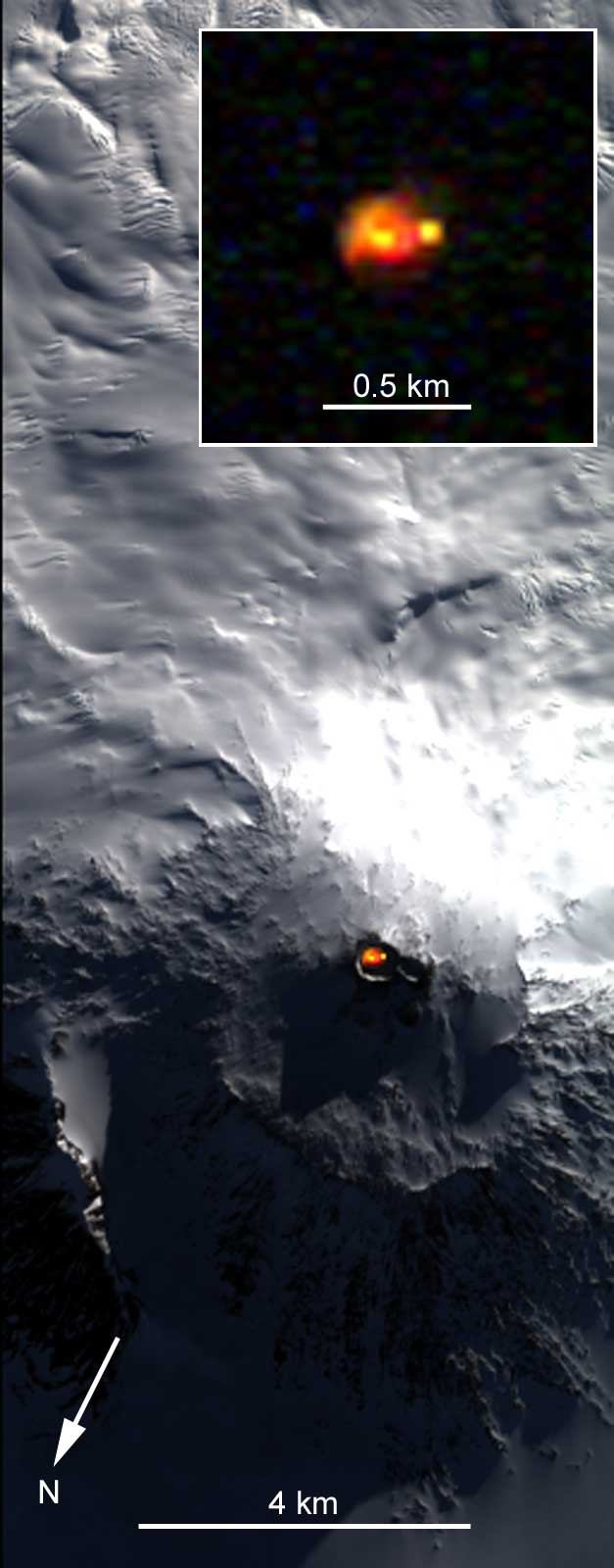 Satellite picture of Mount Erebus showing its lava lake, on Ross Island, Antarctica. For this picture, Autonomous Sciencecraft Software controls the Earth Observing One spacecraft to track activity at Mount Erebus.